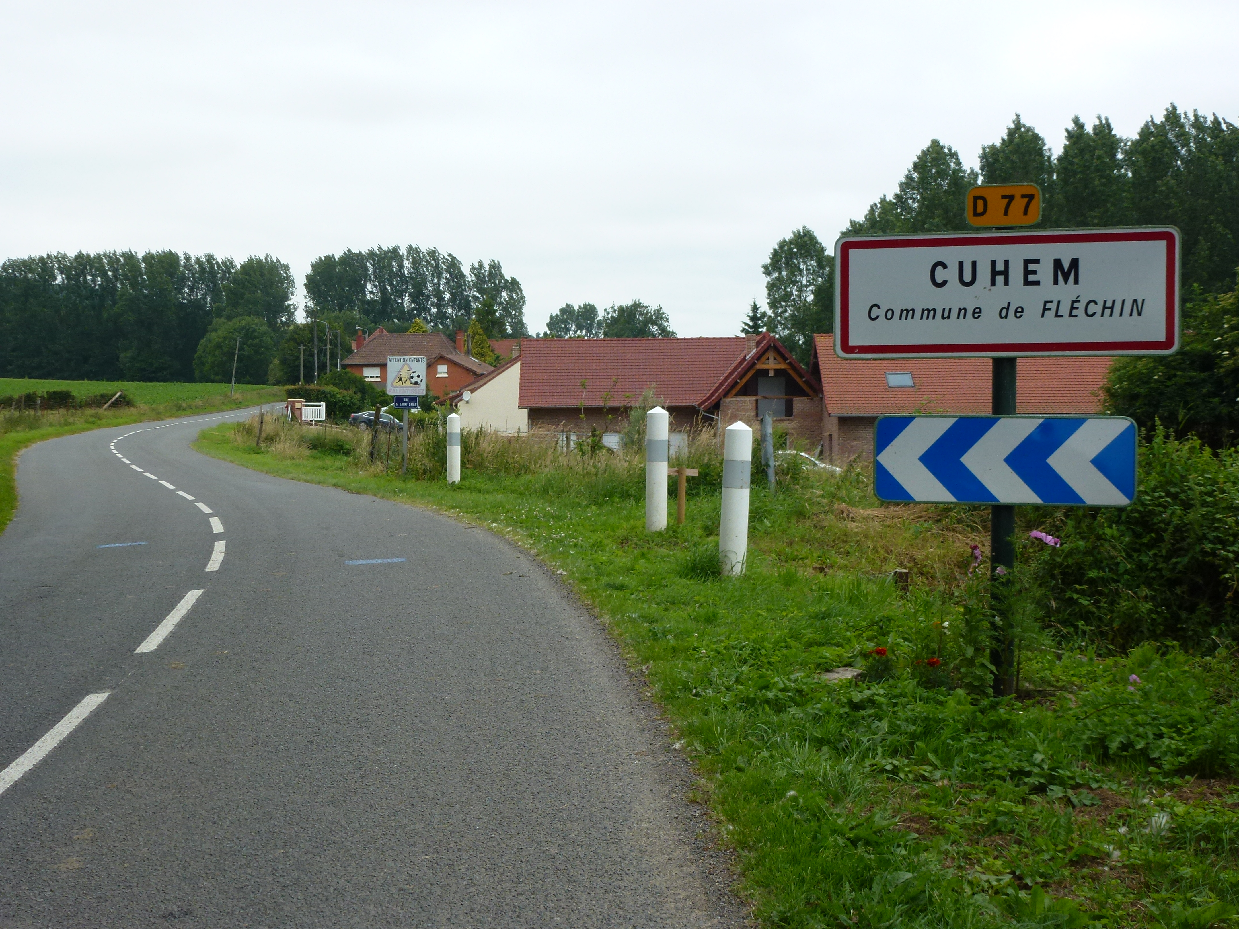 Fléchin (Pas-de-Calais) city limit sign Cuhem